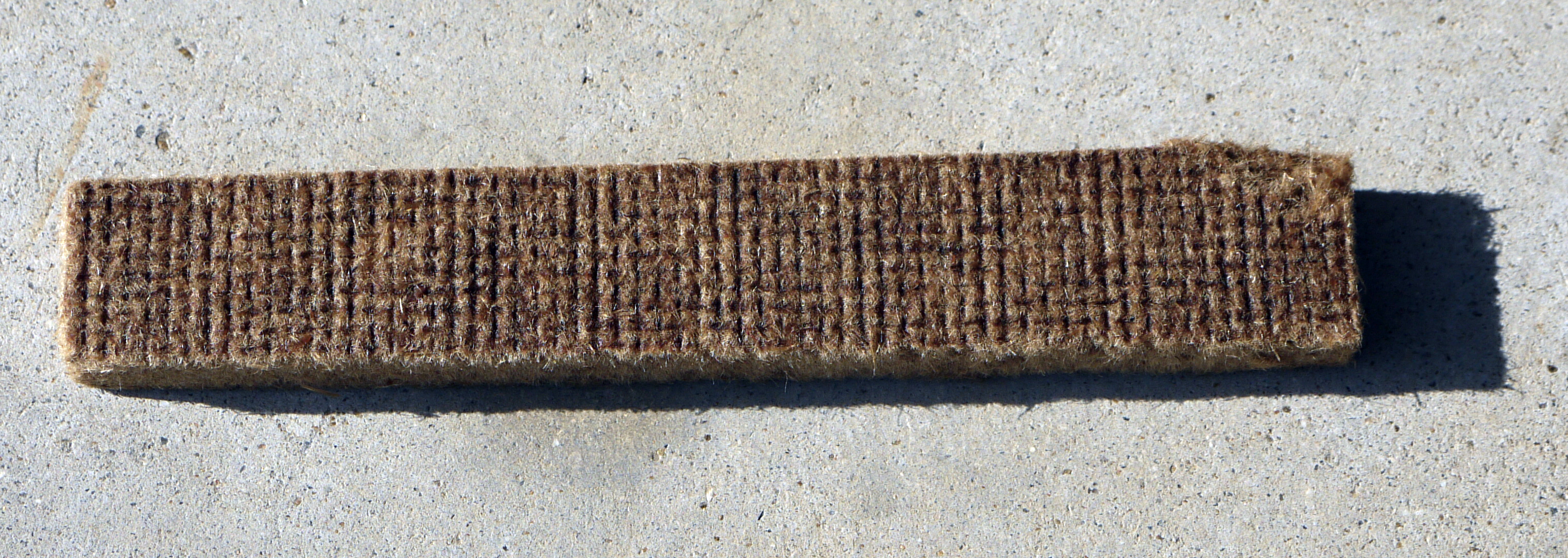 Japanese Firestarter